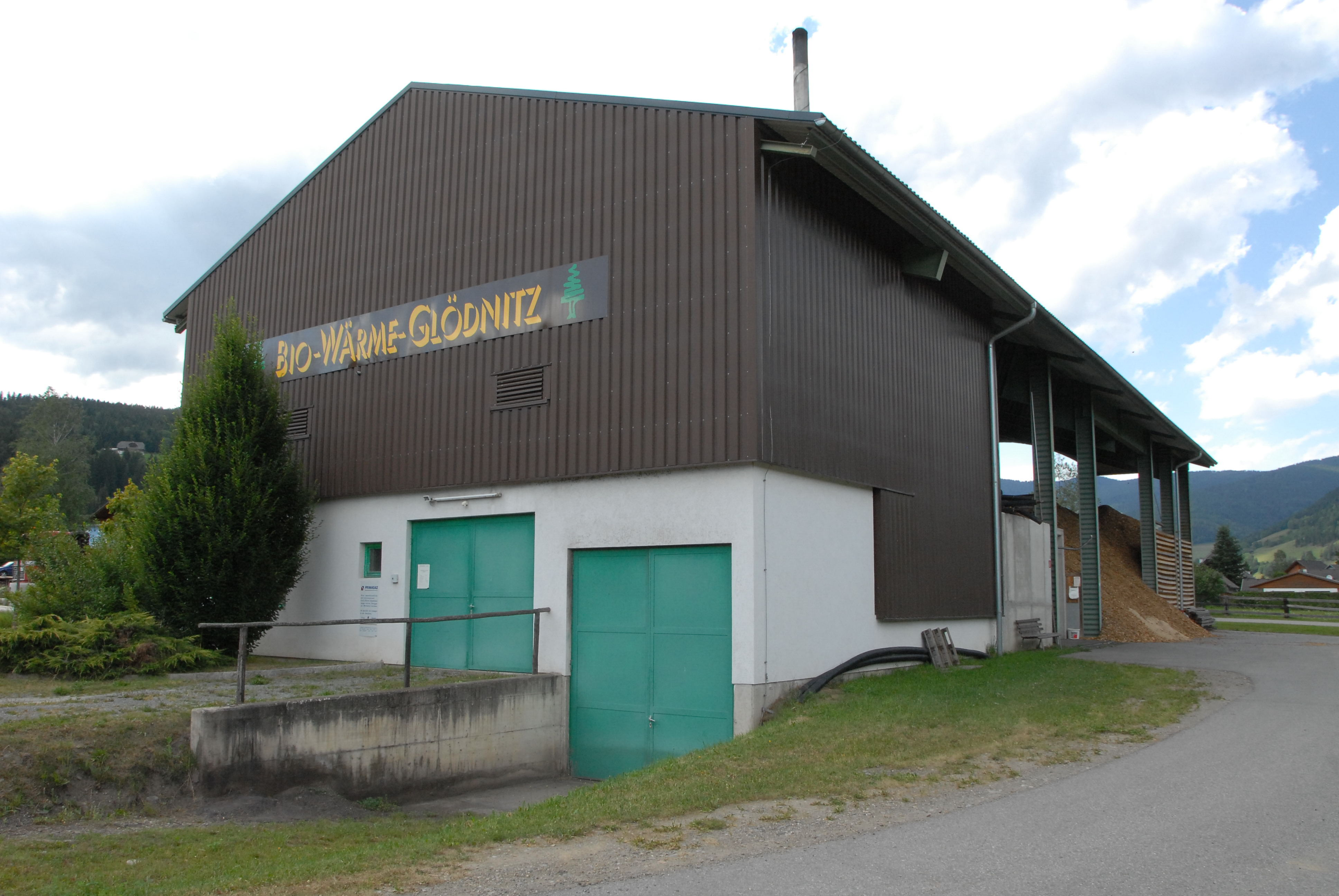 Biological community heating at Gloednitz, district Saint Veit on the Glan, Carinthia, Austria